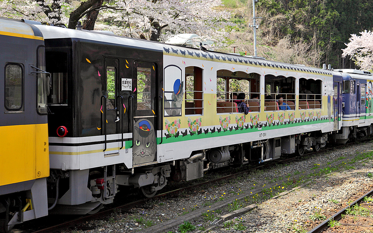 Aizu Railway Type AT-350 DMU